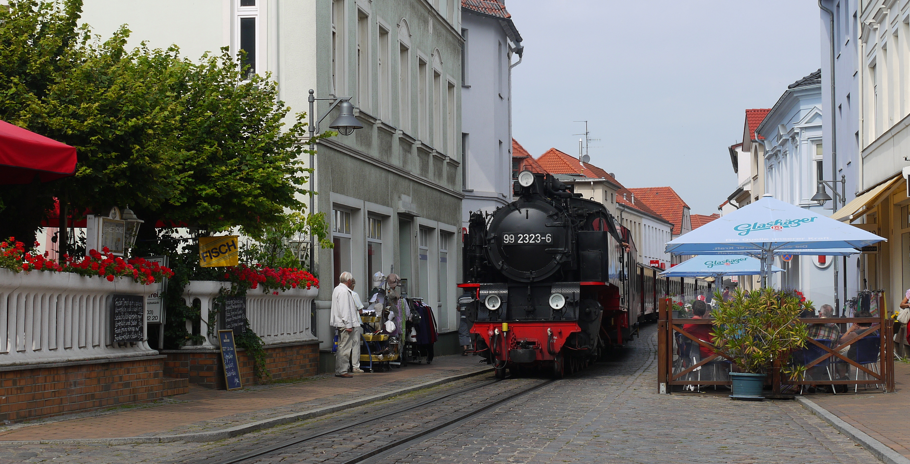 99 2323-6 street running through Bad Doberan.